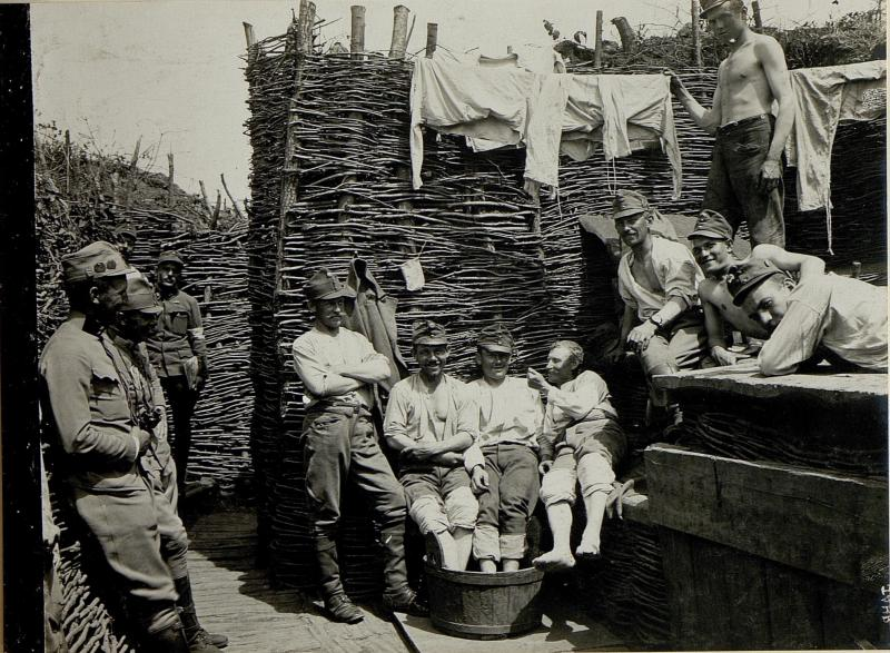 Idylle im Schützengraben bei IR. 88